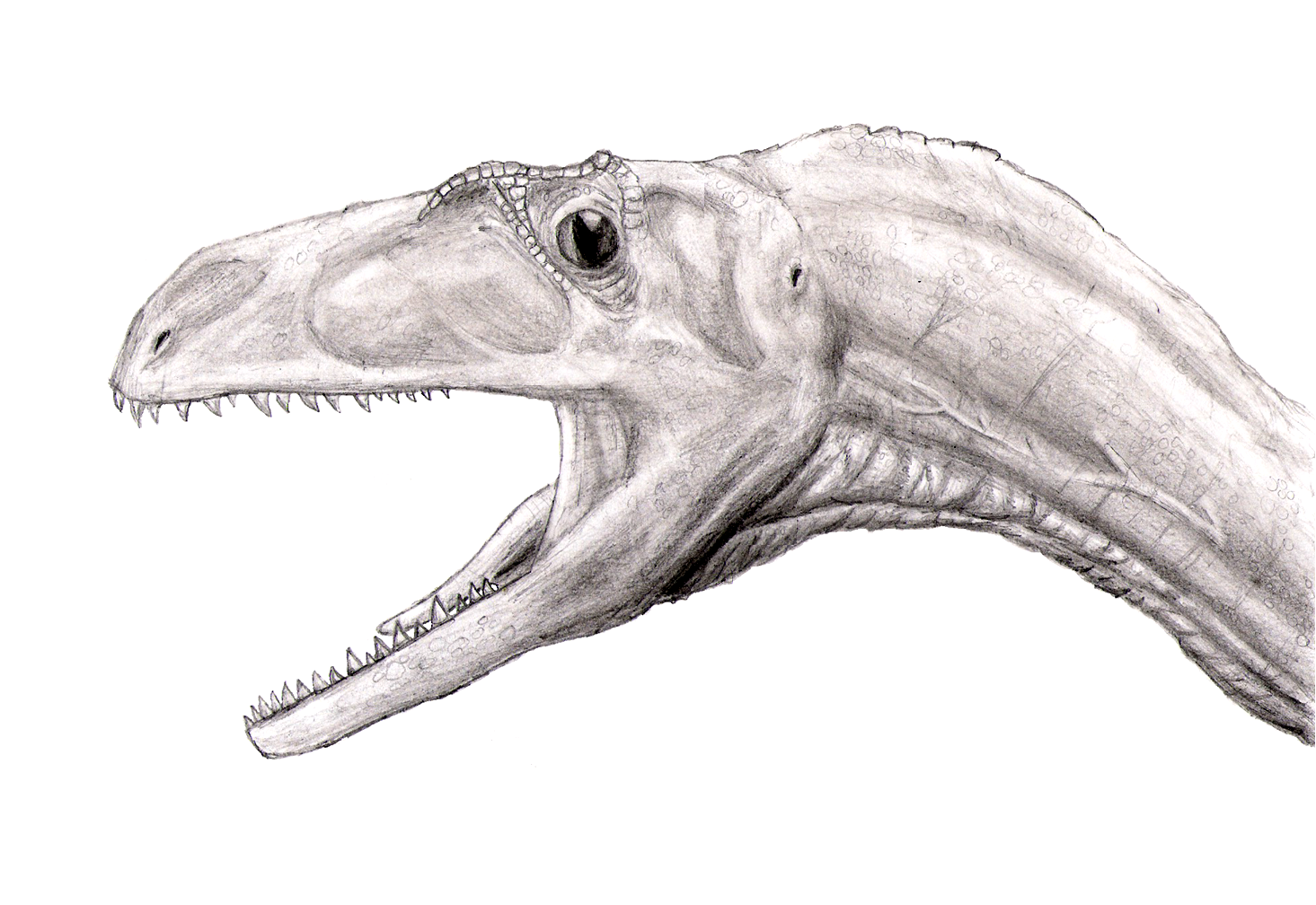 Pencil drawing of Tanycolagreus topwilsoni profile by Smokeybjb